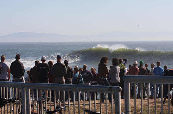 A crowd gathers at Lighthouse State Park to watch the waves at Steamer Lane.